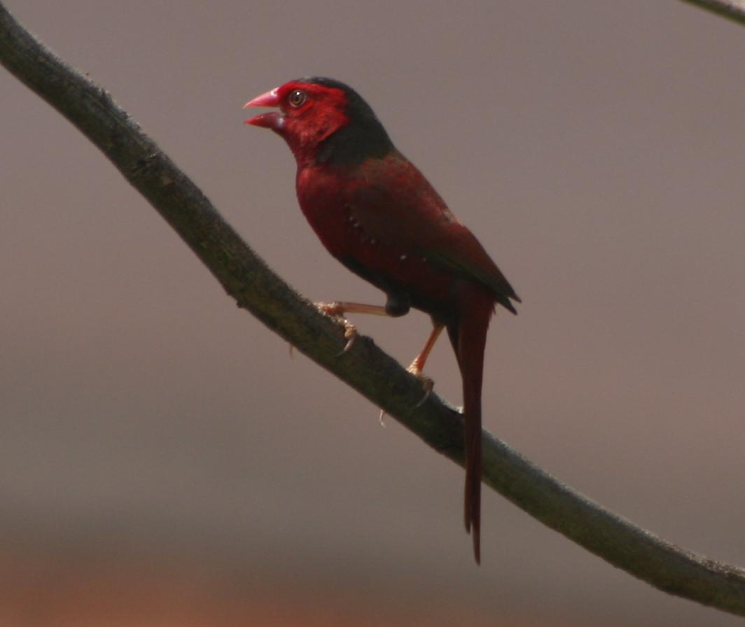 Crimson Finch (Neochmia phaeton)